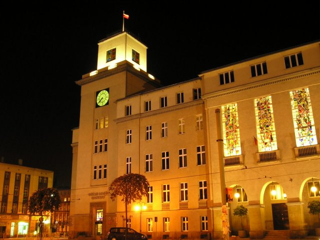 The City Hall in Chorzów, Poland at night.